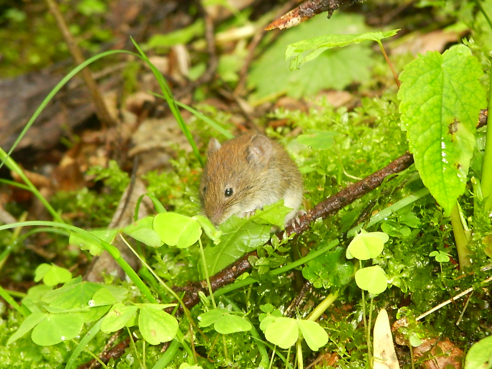 A mouse undisturbed sitting by the touristic walk in "Slovensky Raj" national park in Slovakia. The mice there are so souvereign and cheeky, so they don't turn to escape unless they are directly touched by "passing stranger".